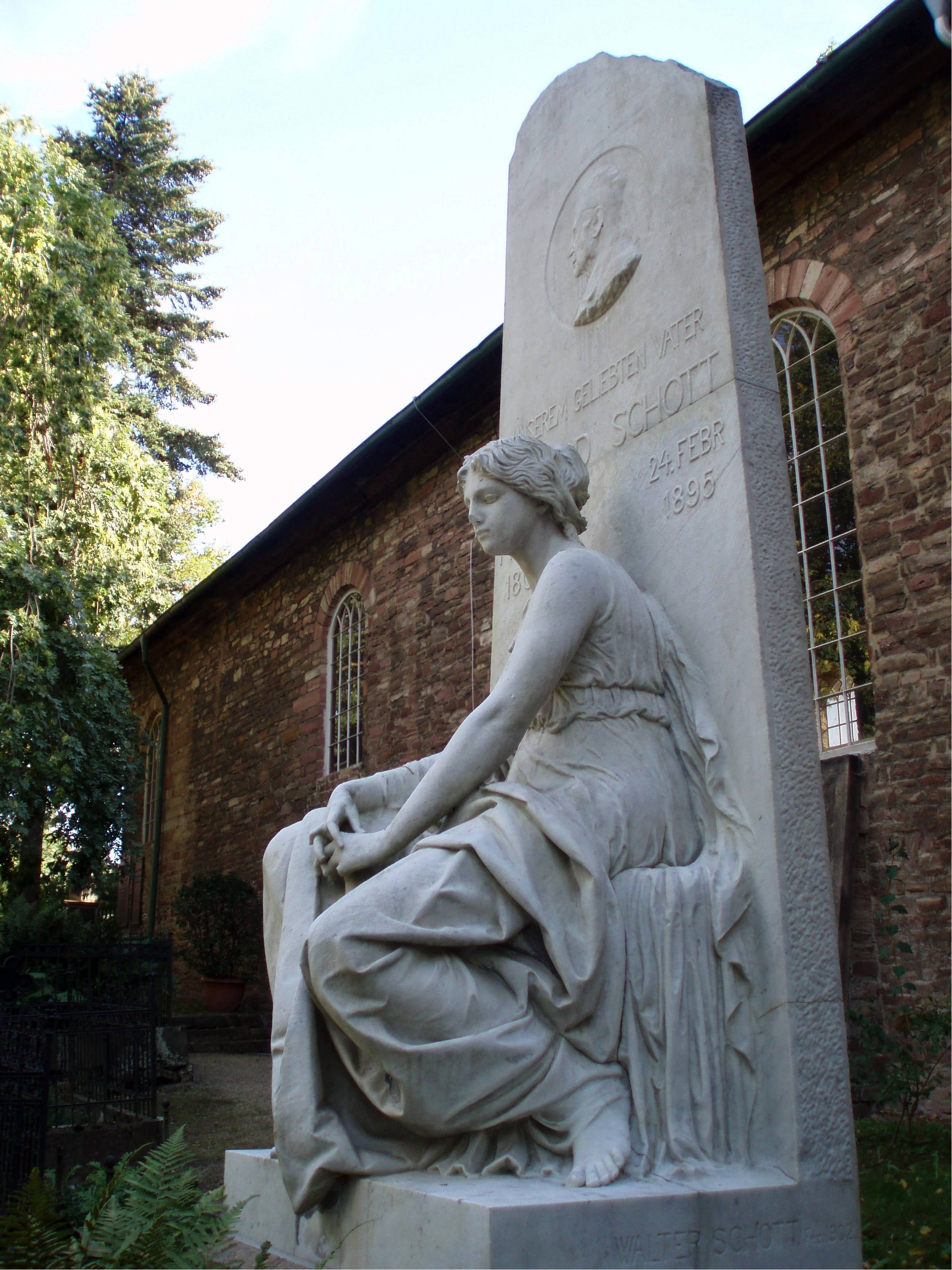 New description: Gravesite of Eduard Schott in Ilsenburg, sculpted by his son Walter Schott